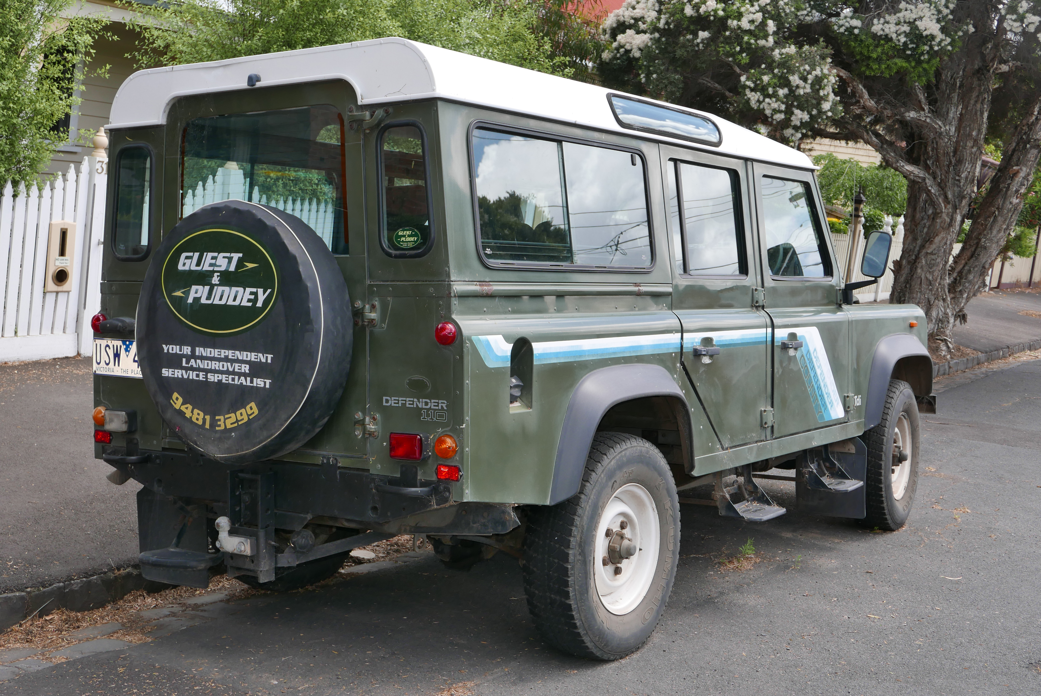 1991 Land Rover Defender 110 Tdi 5-door wagon. The date discrepancy with the vehicle registration information below suggests this may be a grey import. Photographed in Brunswick, Victoria, Australia. Vehicle registration enquiry results Jurisdiction Victoria Registration USW464 Chassis code SALLDHMF7HA904563 Engine code 11L11863A Compliance date 1996-04 Year of manufacture 1991 (not a typo)